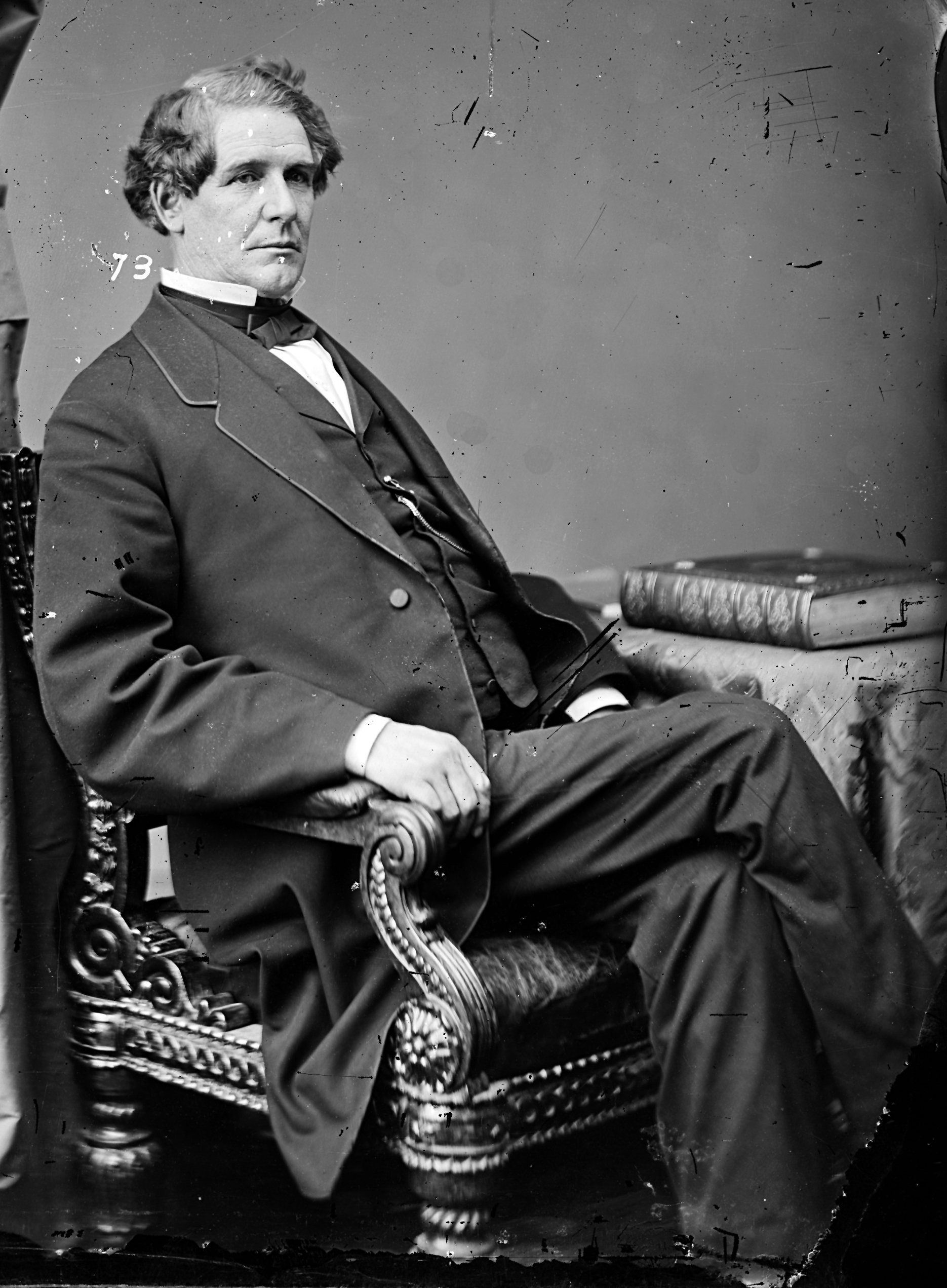 George Van Eman Lawrence, US Representative from Pennsylvania